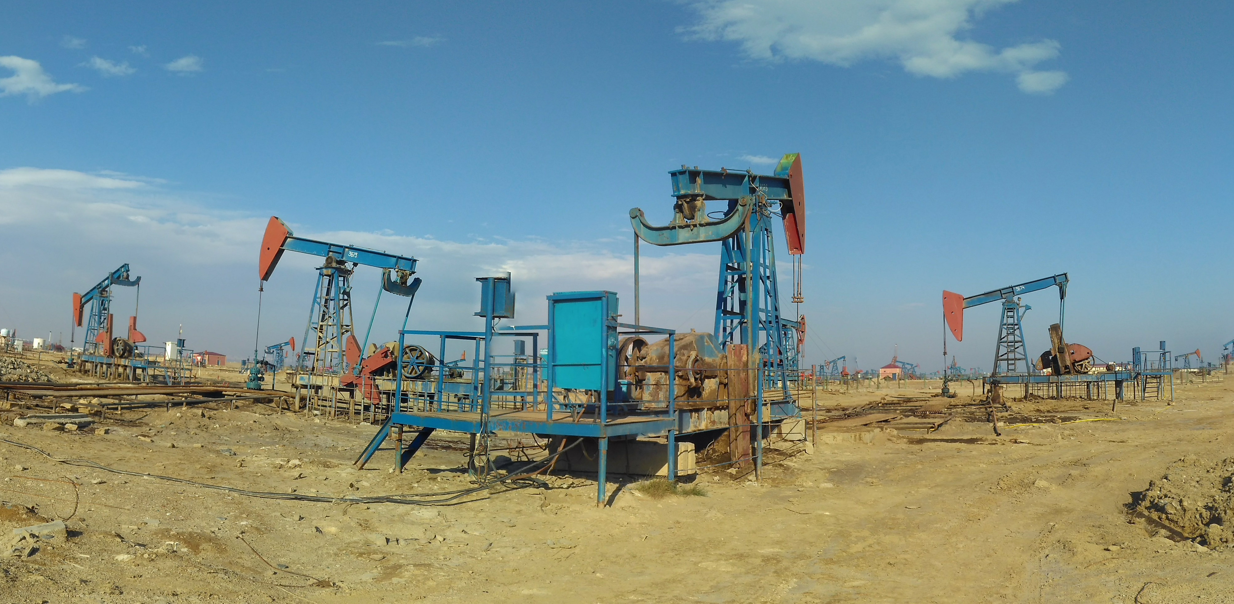 Baku Oil Pumps